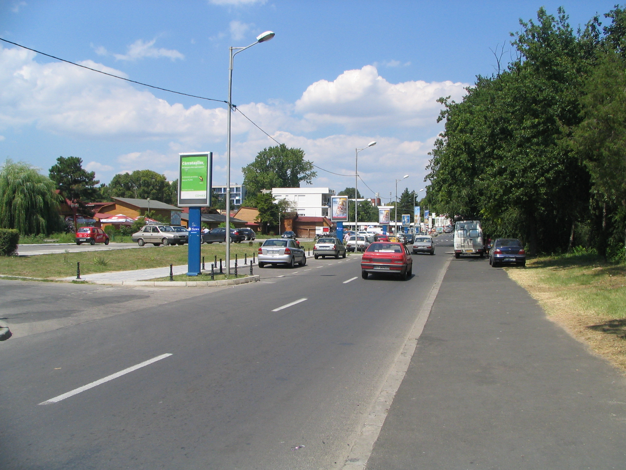 Street in Neptun, Romania